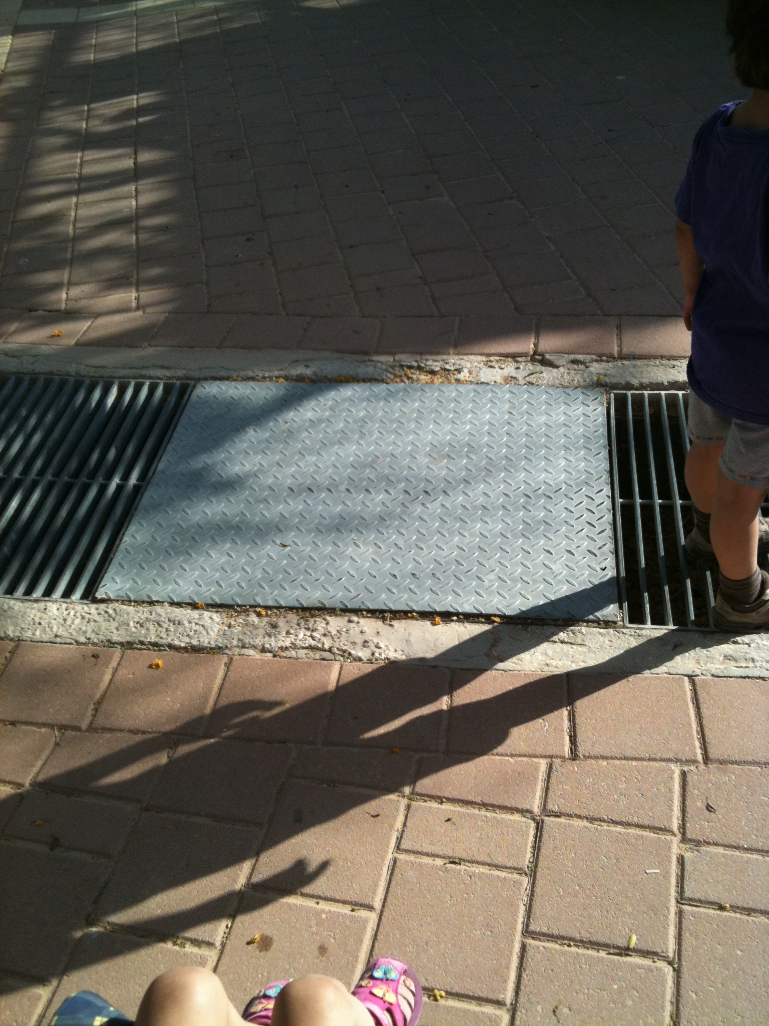 A device in Negev Zoo, Israel, preventing wheels of wheelchairs and strollers from getting stuck between the bars that protect a canal.